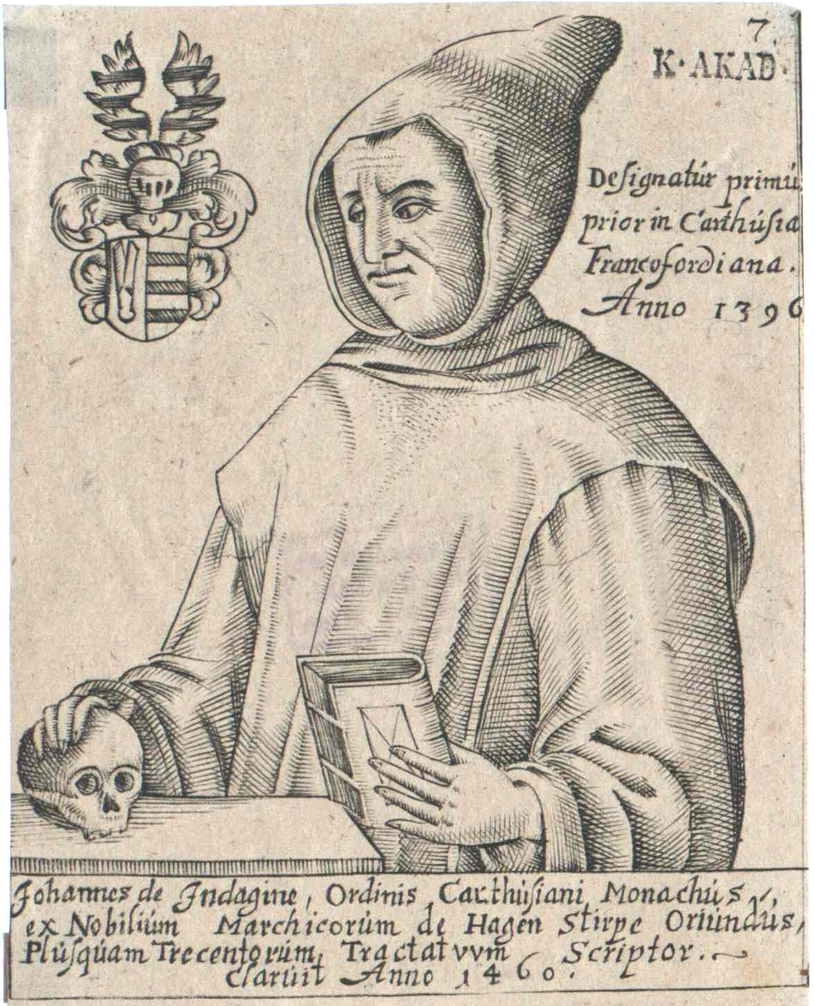 Johannes Bremer von Hagen bzw. Johannes de Indagine (1415-1475), Kartäusertheologe in Erfurt